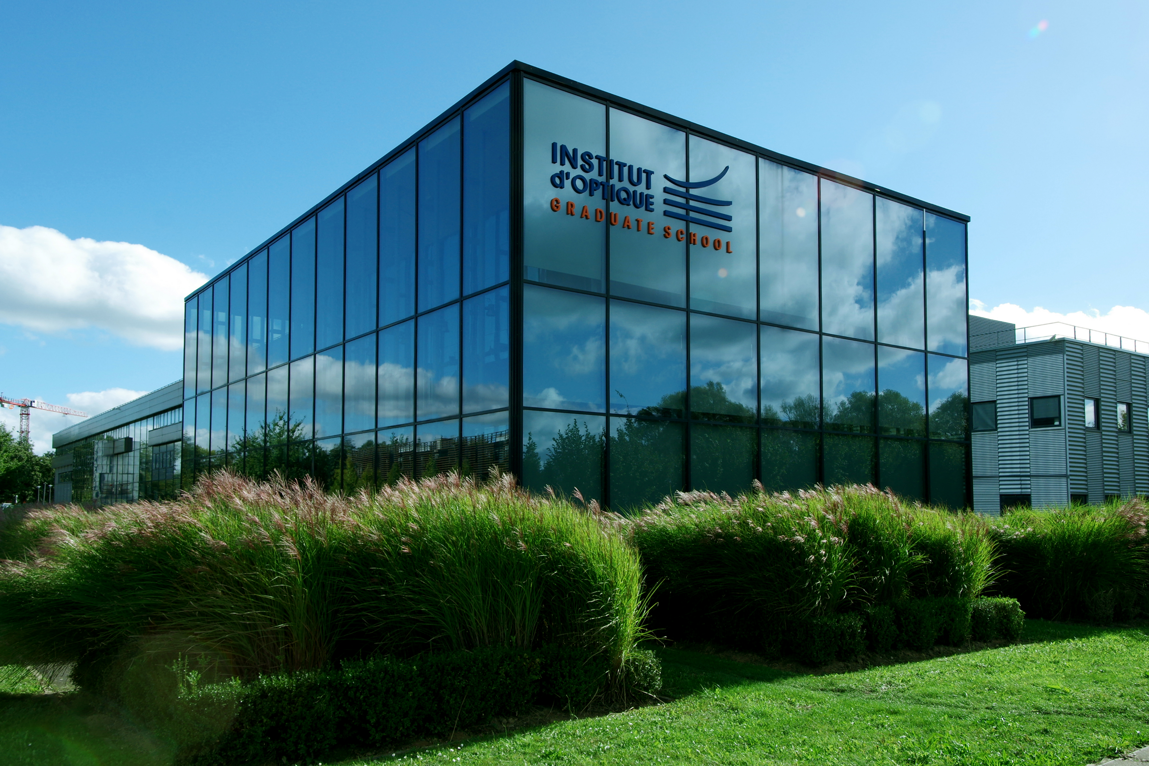 Picture of the Institut d'Optique Graduate School building in Palaiseau